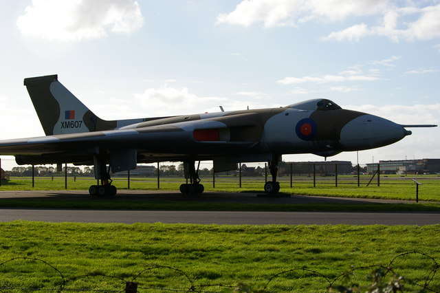 On guard The magnificent Vulcan at Waddington